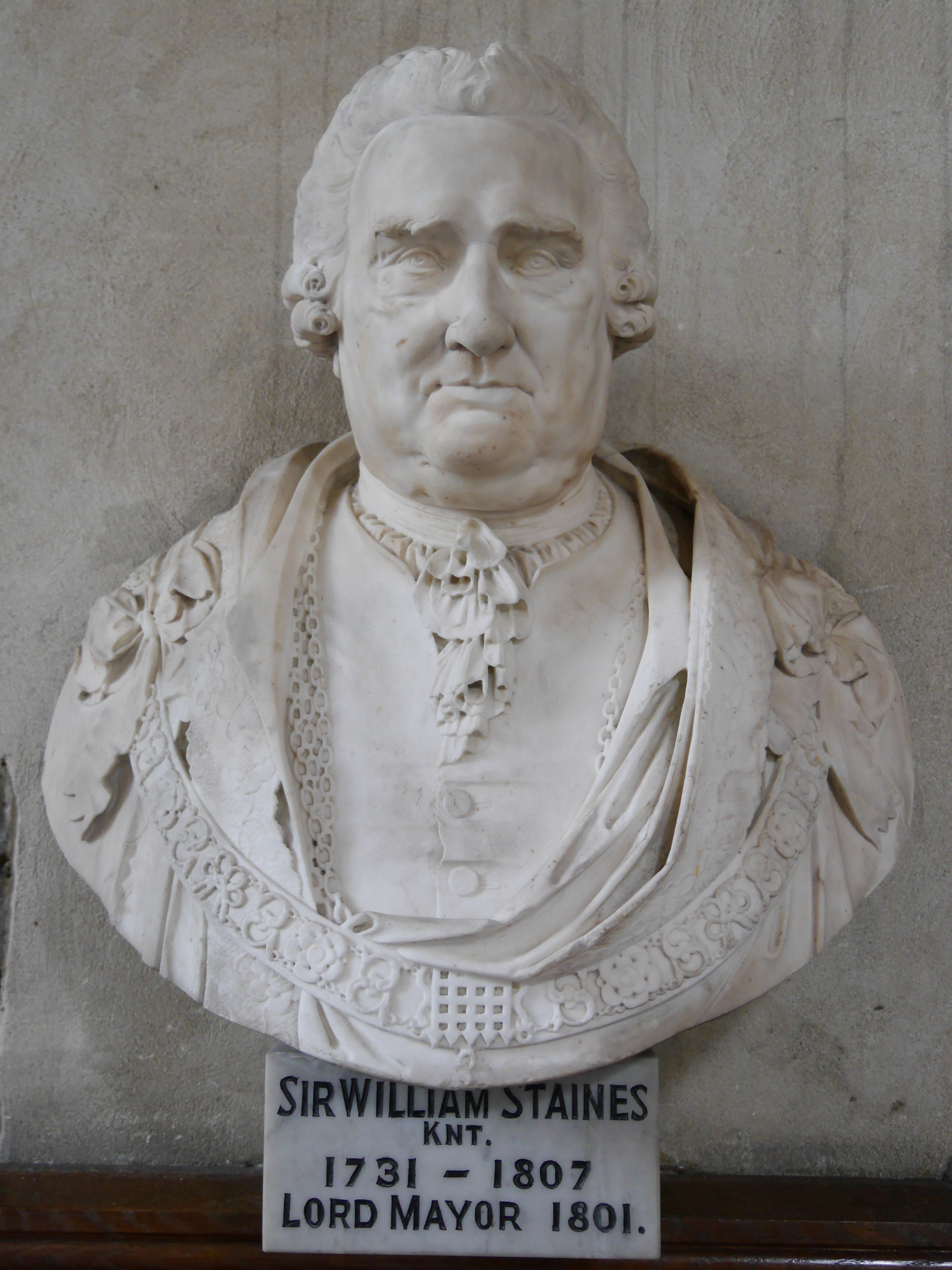 St Giles-without-Cripplegate, London